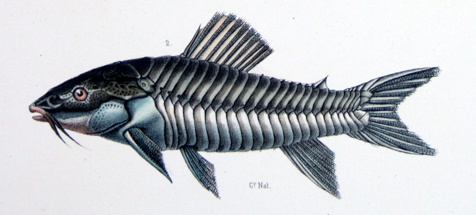 Callichthys chiquitos Cast. = Hoplosternum littorale (Hancock, 1828)